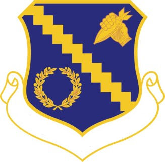 Emblem of the 98th Range Wing (may be used by the 98th Operations Group with the group name on the scroll)